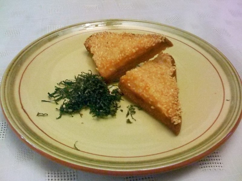 Sesame prawn toast - a dish frequently eaten as a starter (hors d'oeuvre) in Chinese restaurants in the UK